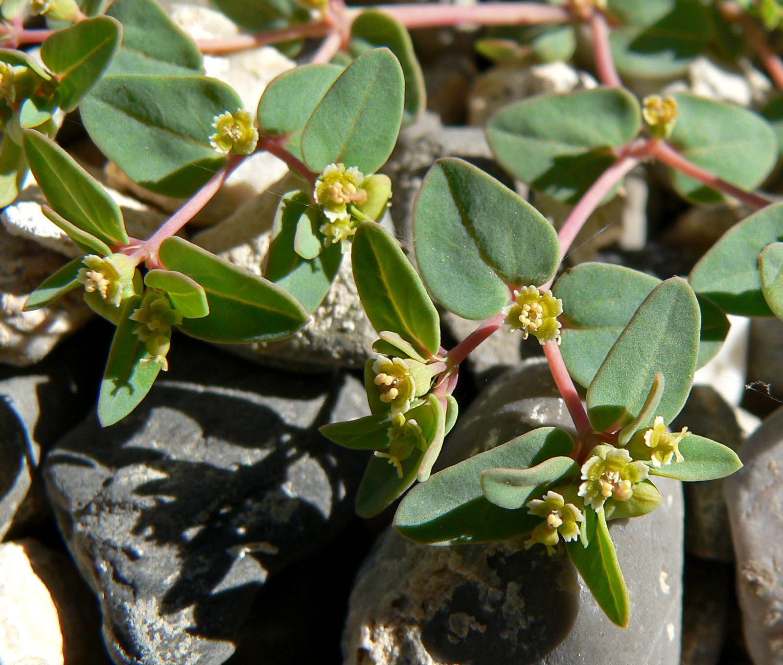 Euphorbia fendleri in Kyle Canyon, Spring Mountains, southern Nevada